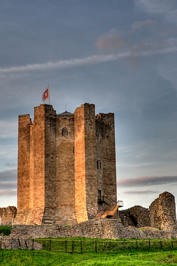 Evening sunshine on Conisbrough Castle Keep. Process: 5 x RAW to 1 x HDR then tone mapped to 1 x TIF